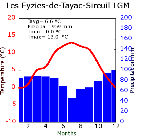 Climate diagram of Les Eyzies, France, at Last Ice age coldest period. This climate diagram presents temperature, precipittation on Les Eyzies, Dordogne, Near Vezere river Aquitania, France, ca. 21000 calendar years (cal.21 ka BP) ago. during Last Glacial Maximum LGM.